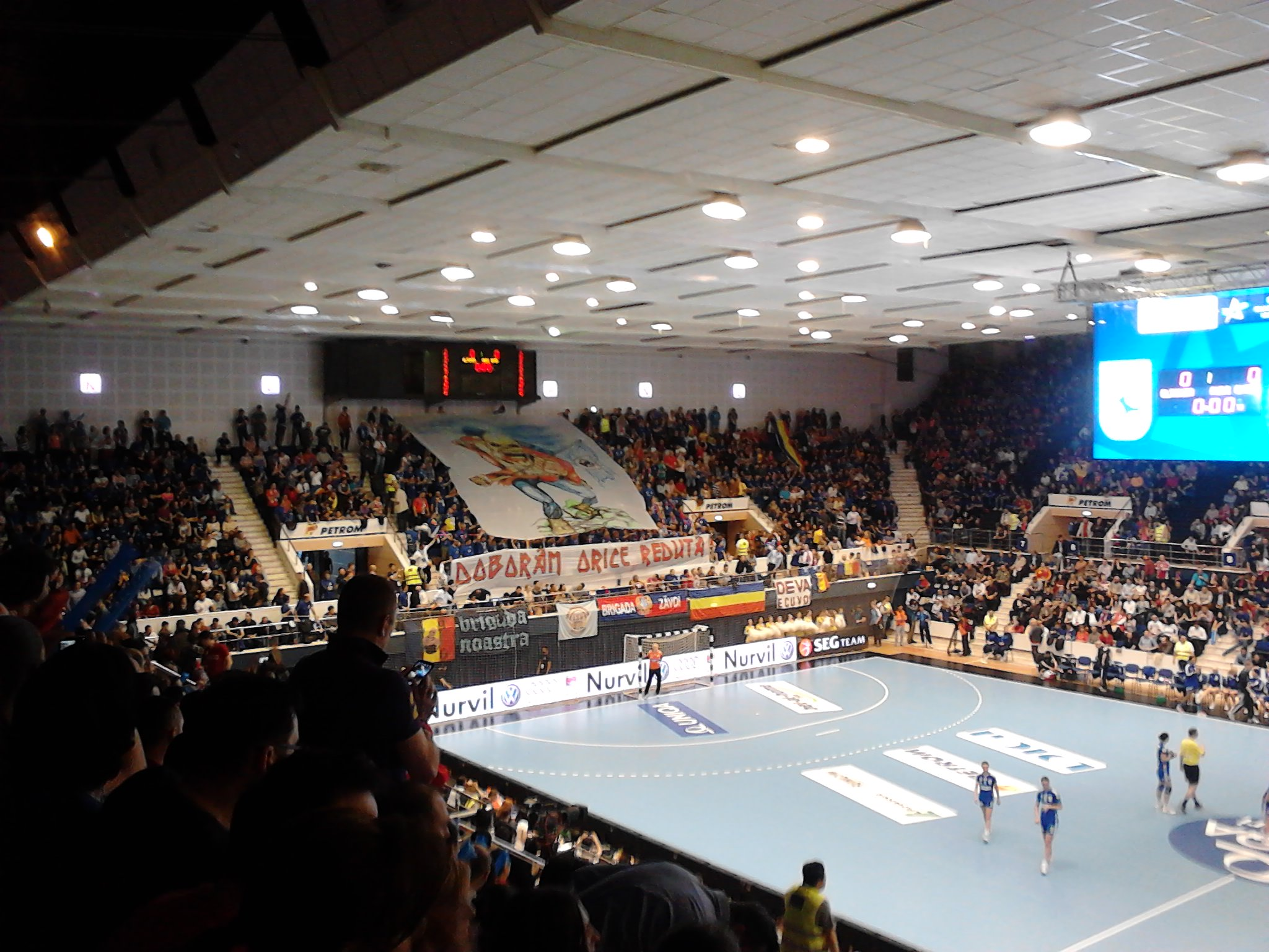 "Brigada Zăvoi", CS Oltchim Râmnicu Vâlcea's fan club, cheering for the team in Polyvalent Hall Bucharest on May 15, 2010, during the Champions League's final against Viborg HK.